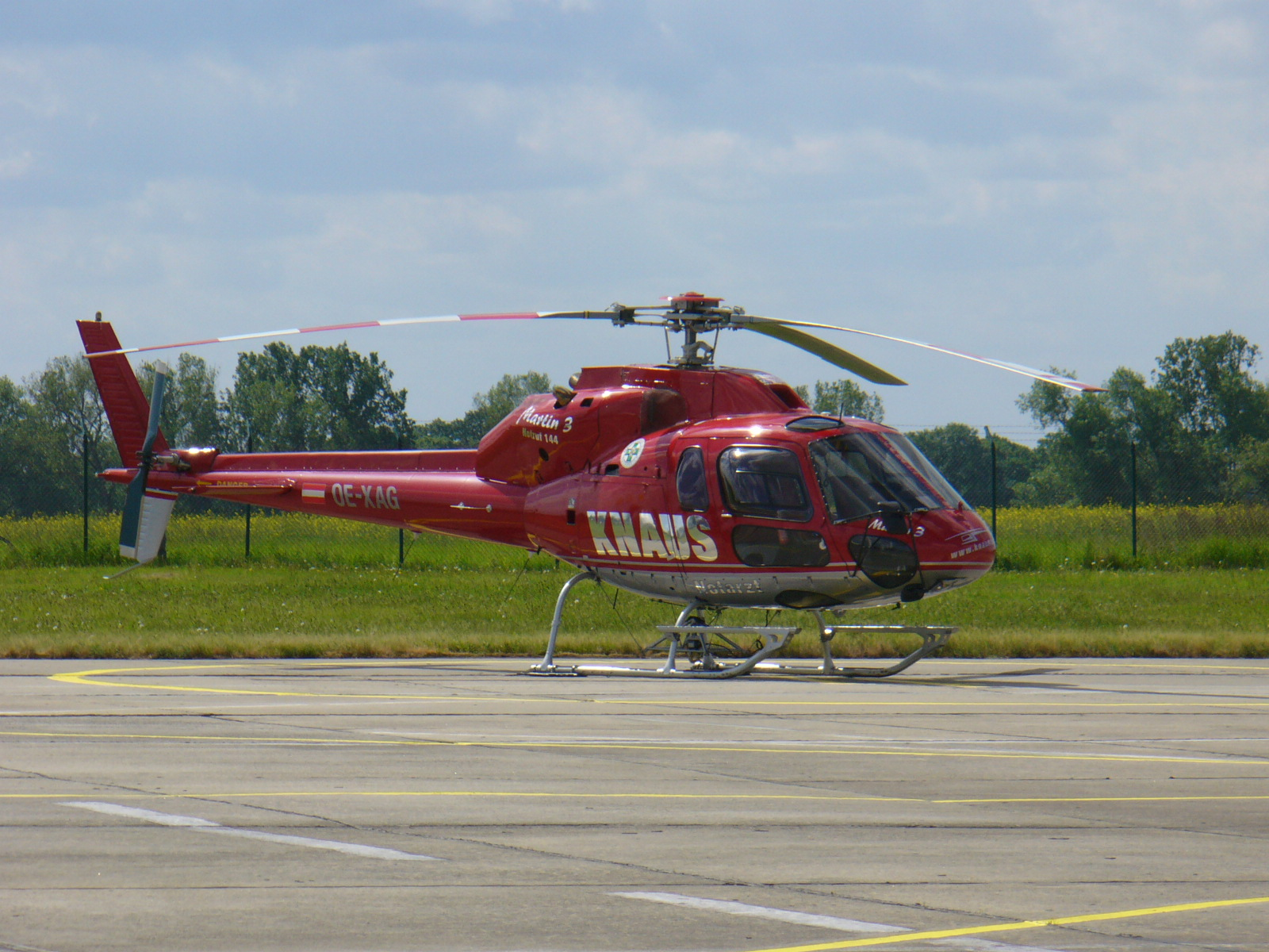 Eurocopter AS 355 F1 Écureuil na ILA 2006 Eurocopter AS 355 F1 Écureuil during ILA 2006 (twin-engine version of the AS 350, with Allison power plants)